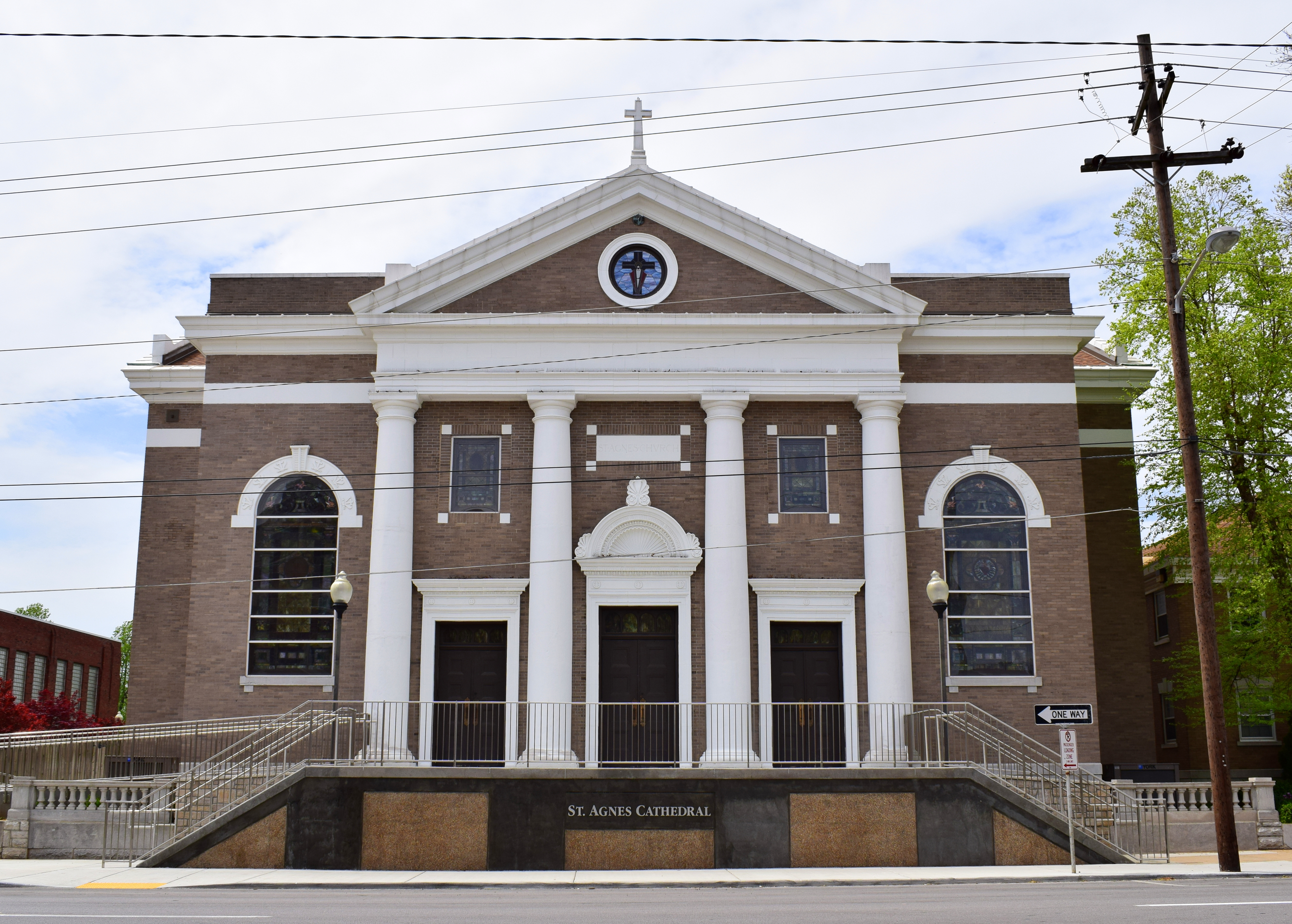 Saint Agnes Cathedral (Springfield, Missouri) - exterior 2